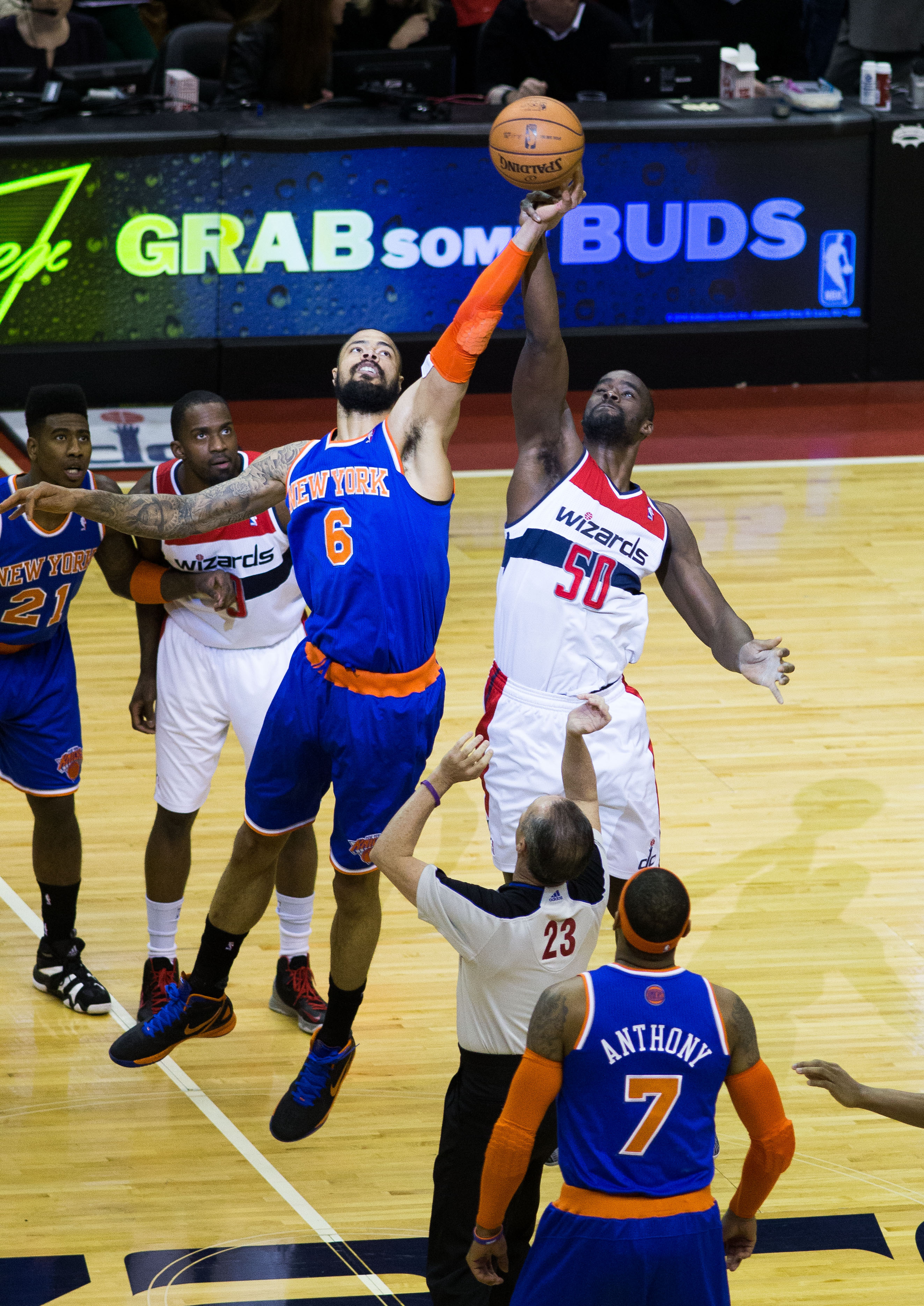 New York Knicks at Washington Wizards March 1, 2013